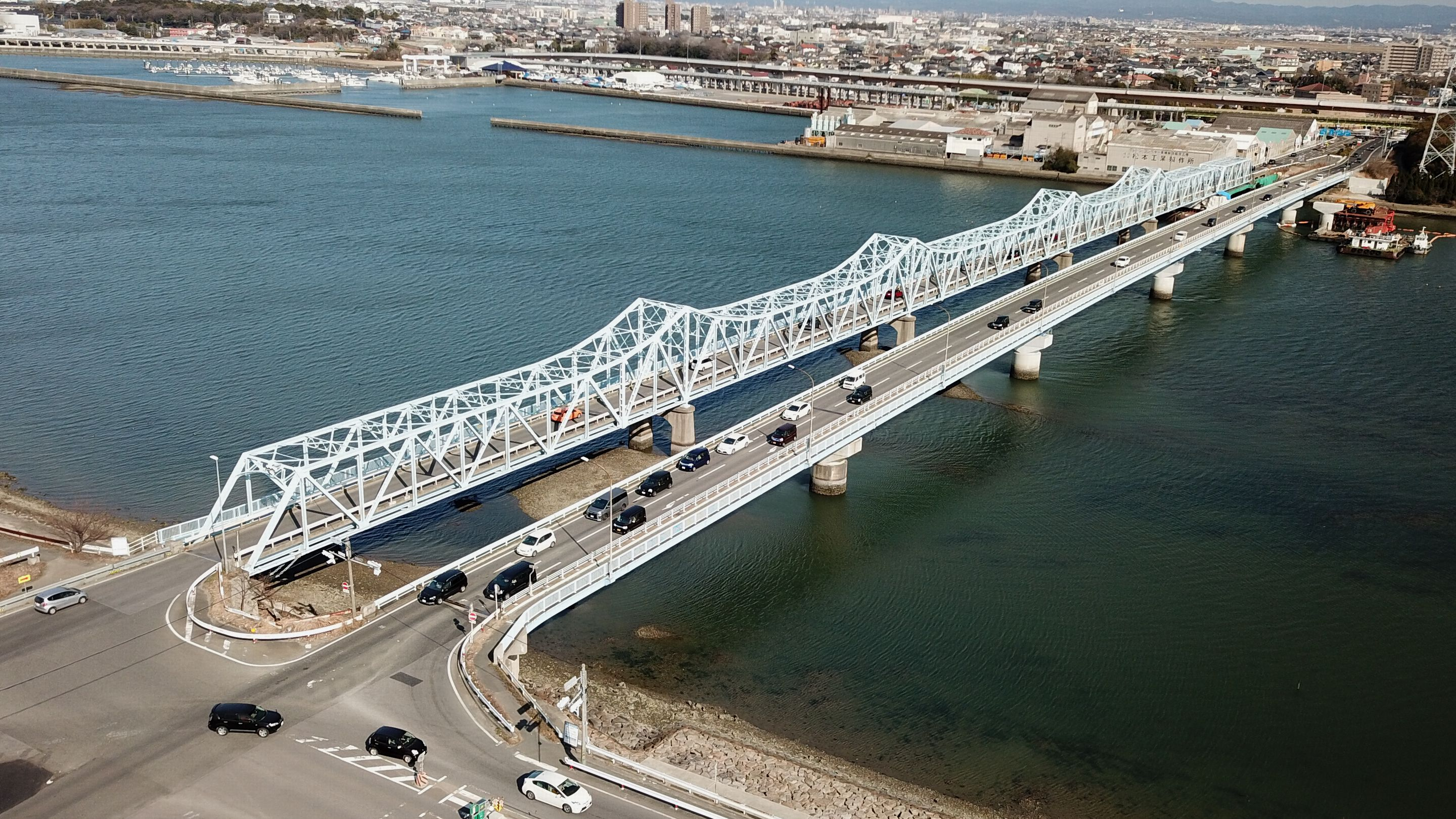 KINUURA OH-HASHI Brigde connecting HANDA City and TAKAHAMA City. (AICHI Pref., JAPAN)